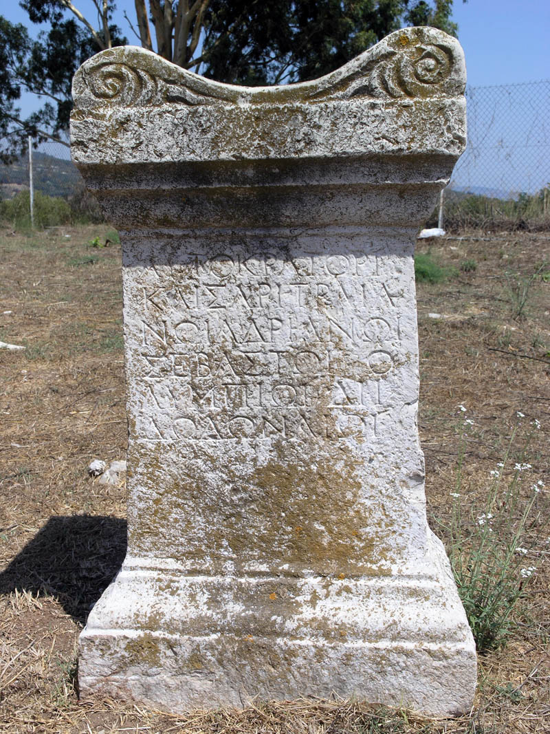 Inscribed stela dedicated to Hadrian Zeus Dodonaios in Nicopolis of Epirus. Photograph taken by Marsyas 10:07, 24 September 2005 (UTC).